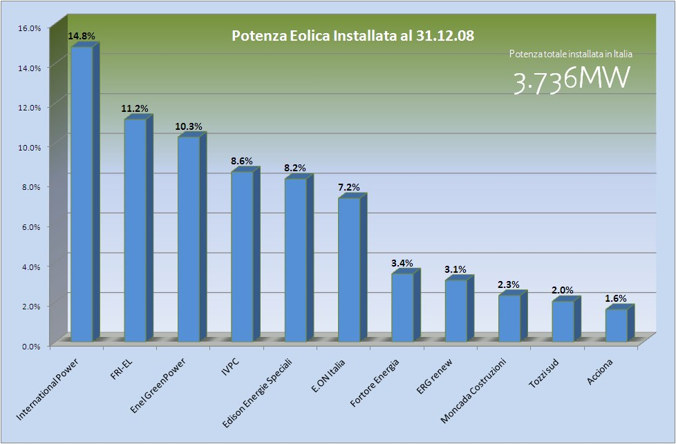 Italian wind energy producers share